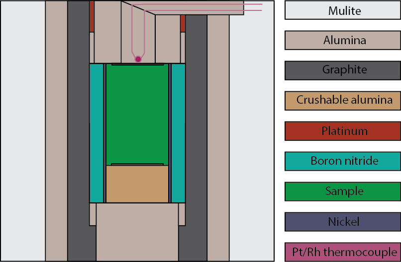 Example D-DIA sample assembly using a mullite pressure medium and a top entry thermocouple.